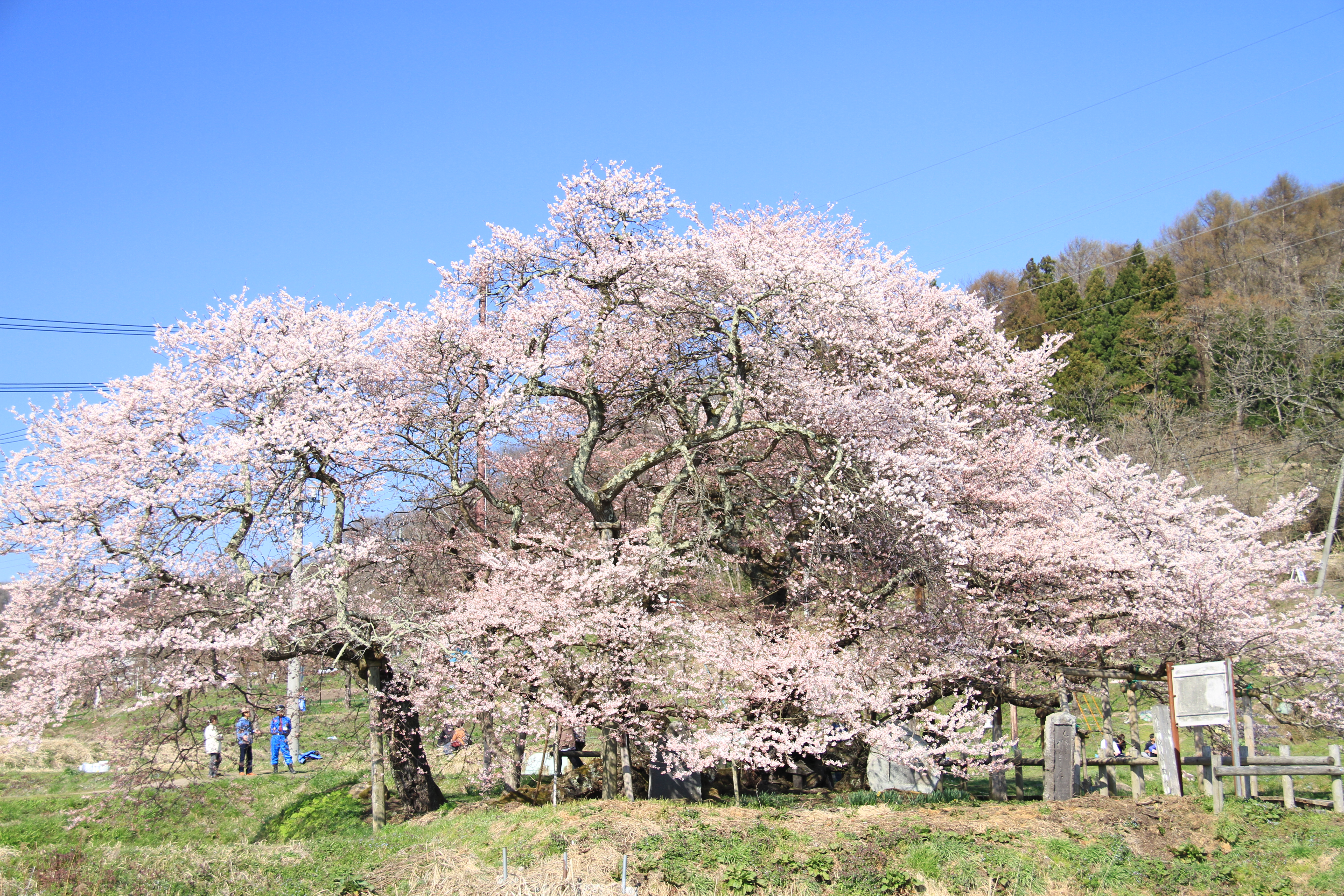 Ishibe-zakura tree in Aizuwakamatsu, Fukushima Prefecture, Japan.